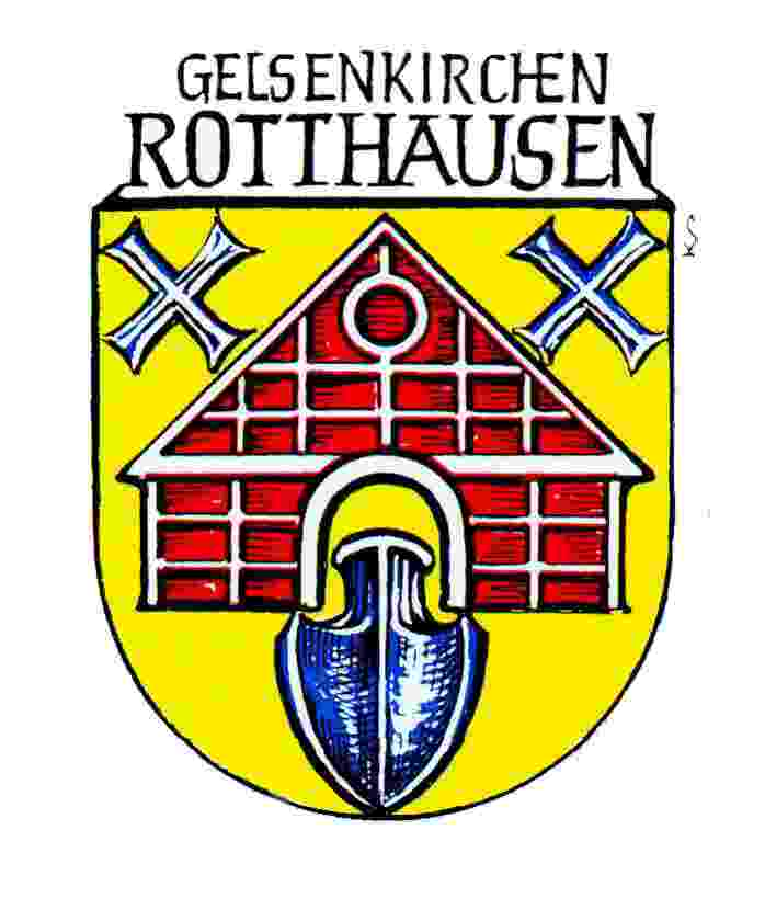 Coat of arms of the quarter and the former municipality Rotthausen in North Rhine-Westphalia, Germany